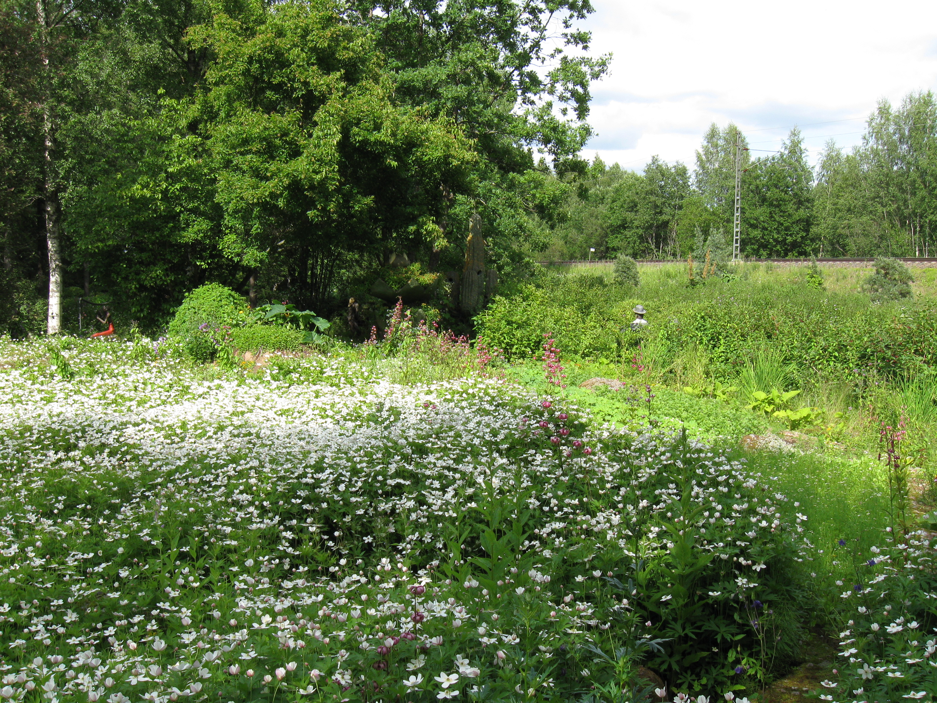 The garden of the sculptor Veijo Rönkkönen in Koitsanlahti, Parikkala, Finland.